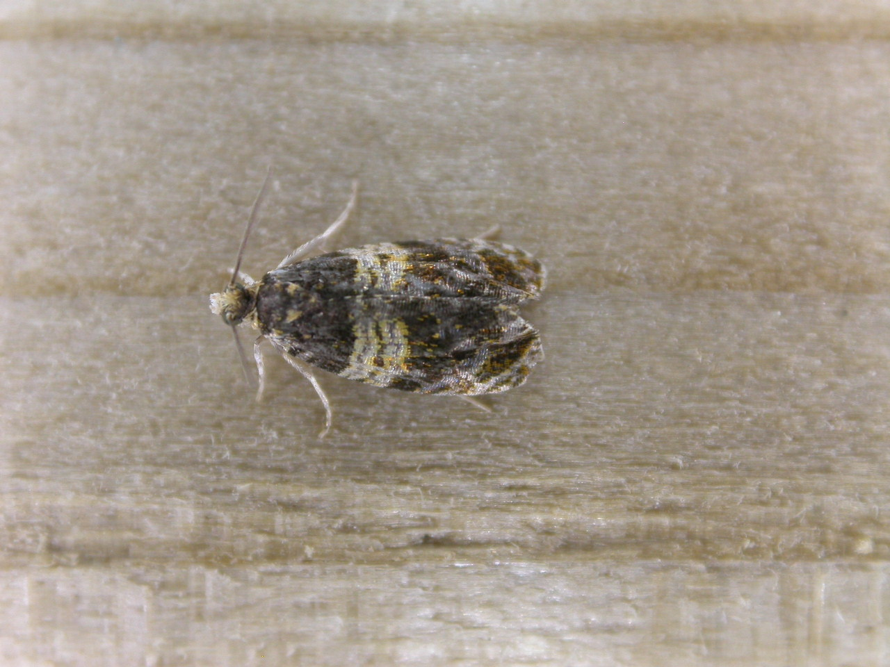 Celypha aurofasciana, Gastes, Landes, SW France, 1/2 July 2003